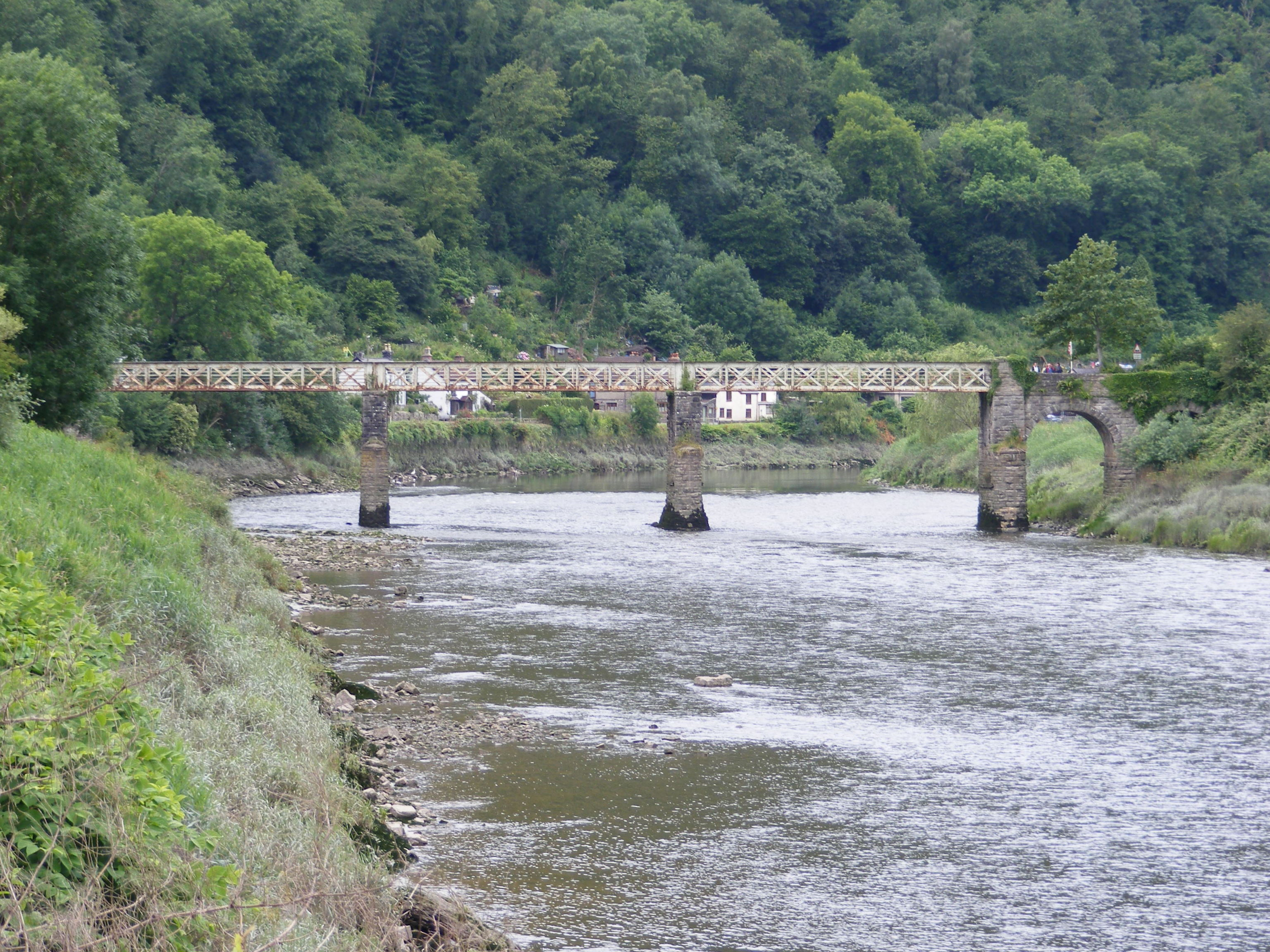 The bridge over the River Wye at Tintern that took the branch line to the Abbey Wireworks.